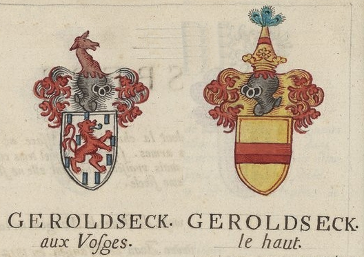 Coats of arms of Geroldseck family